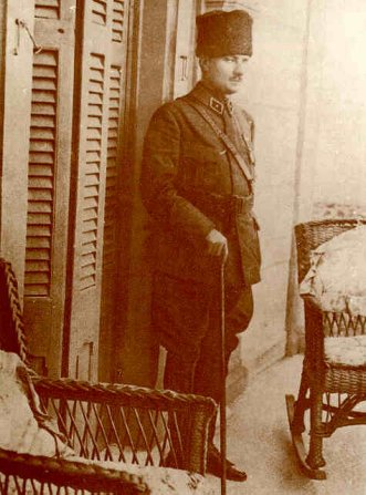 Mustafa Kemal in Izmir, between 10 September-1 October 1922.